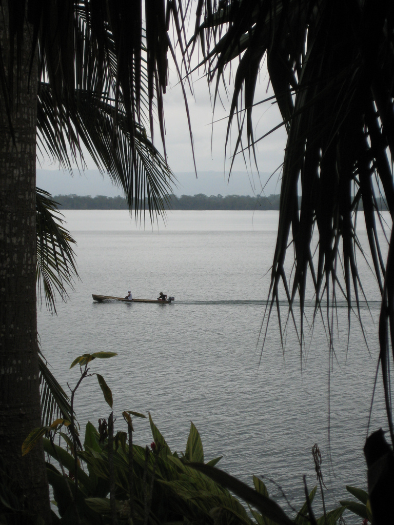 Río Dulce, Guatemala 2009.